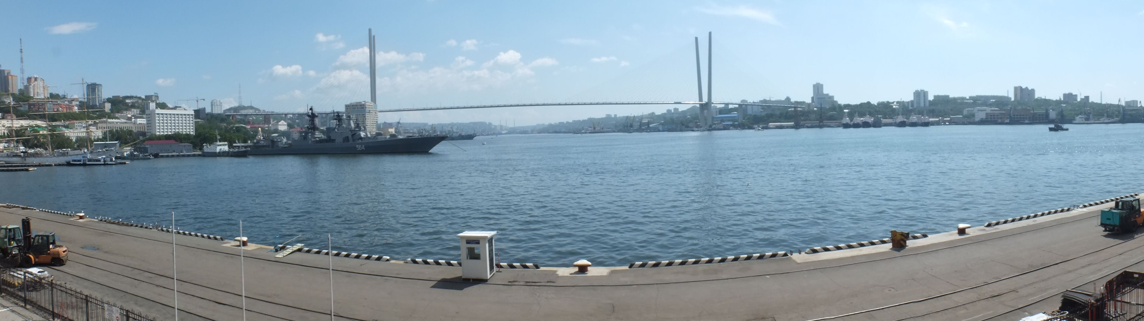 Admiral Tributs (ship, 1983)